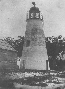 undated photograph of the first Cat Island Light